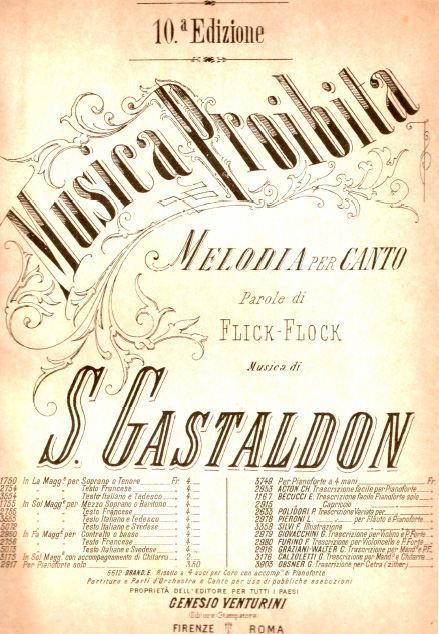 Description: Cover of the 10th edition of the score for "Musica Proibita" Composer: Stanislao Gastaldon Publisher: Genesio Venturini, Florence, 1890 Source: Musica Proibita, Op.5 (Gastaldon, Stanislao) on International Music Score Library Project